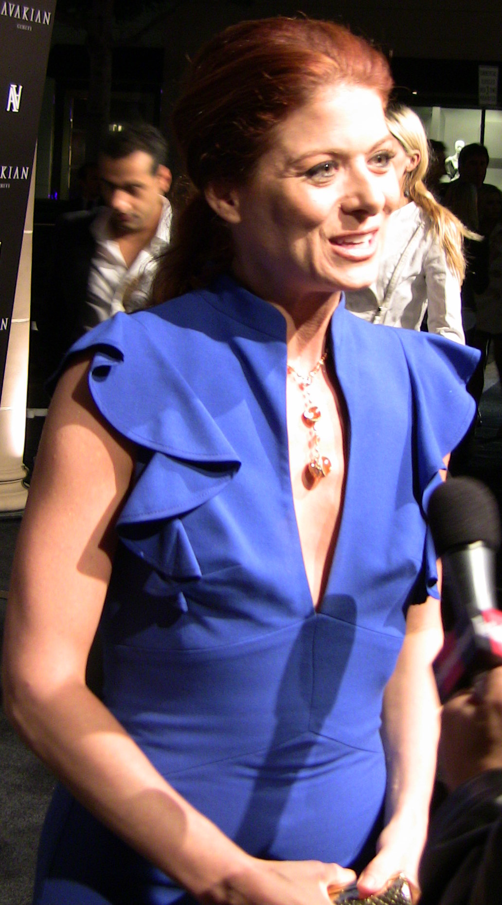 Debra Messing at Avakian Beverly Hills Boutique, Beverly Hills, California, United States